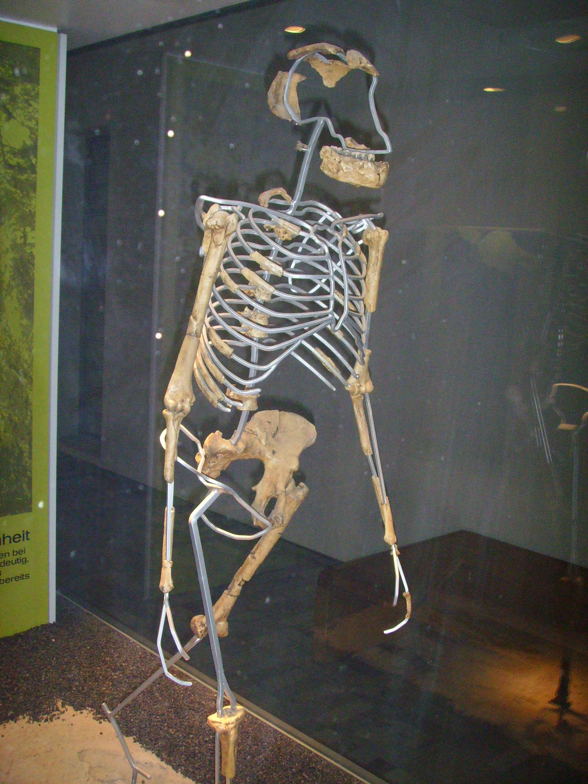 Australopithecus afarensis ("Lucy"), replica (Nachbildung) Location: Senckenberg-Museum, Frankfurt am Main (Germany) Photographer: Gerbil Date: November 2006